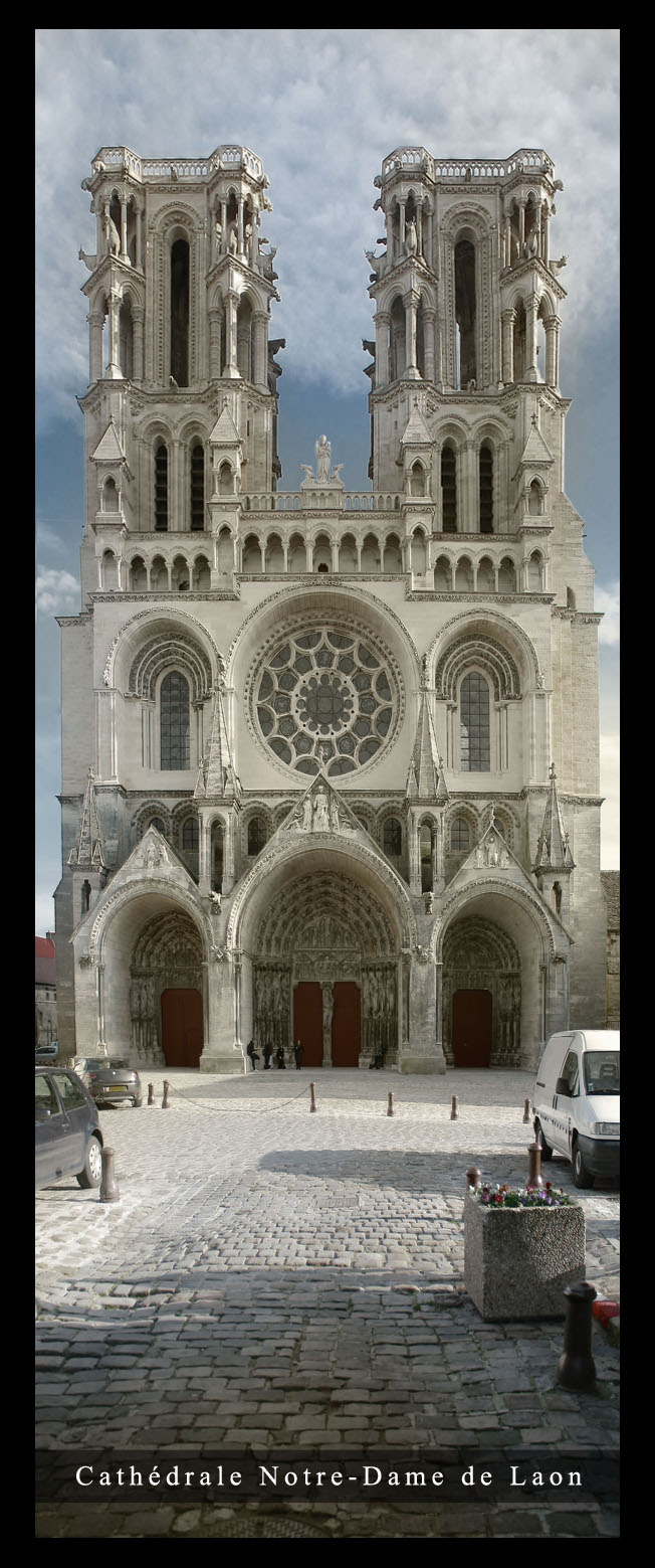 Laon Cathedral